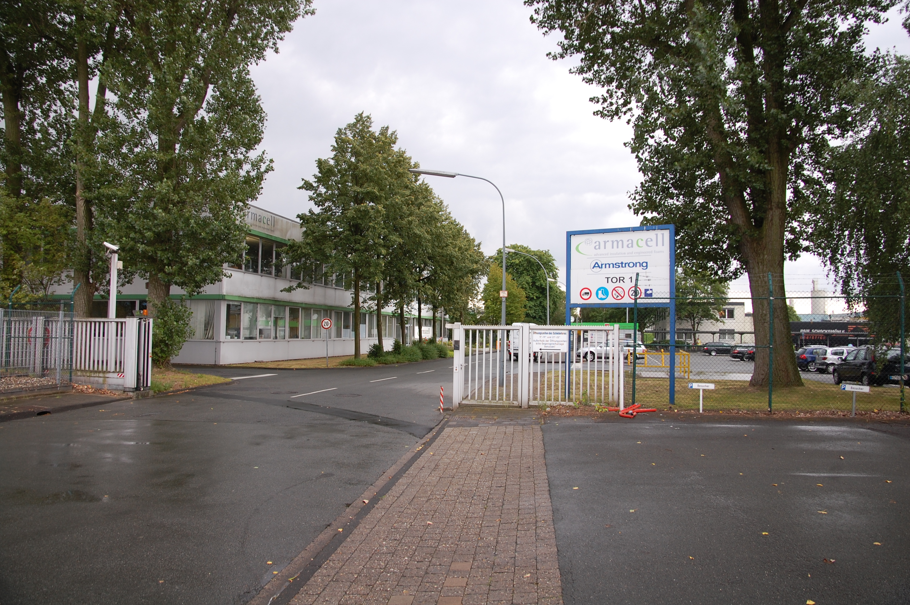 The main gate of the Armacell factory in Münster.